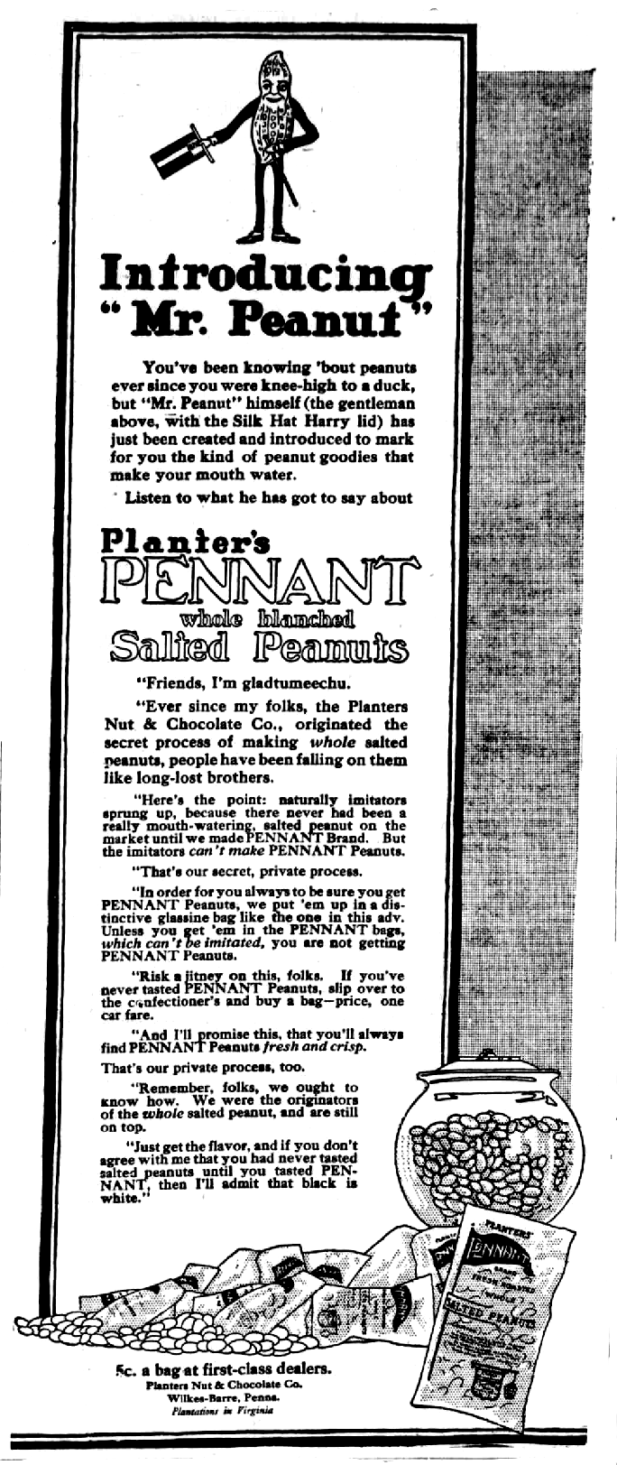 1917 newspaper ad introducing Mr. Peanut for Planters.